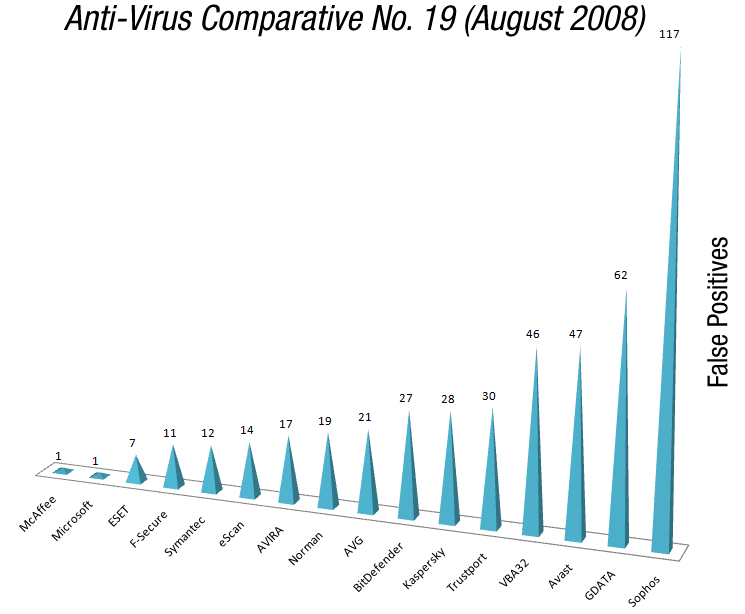 Data from False Positives section of in chart form. False positives can cause harmless files to be quarantined, which can lead to other problems such a program malfunctioning if one of its files were mistakenly identified as a threat.